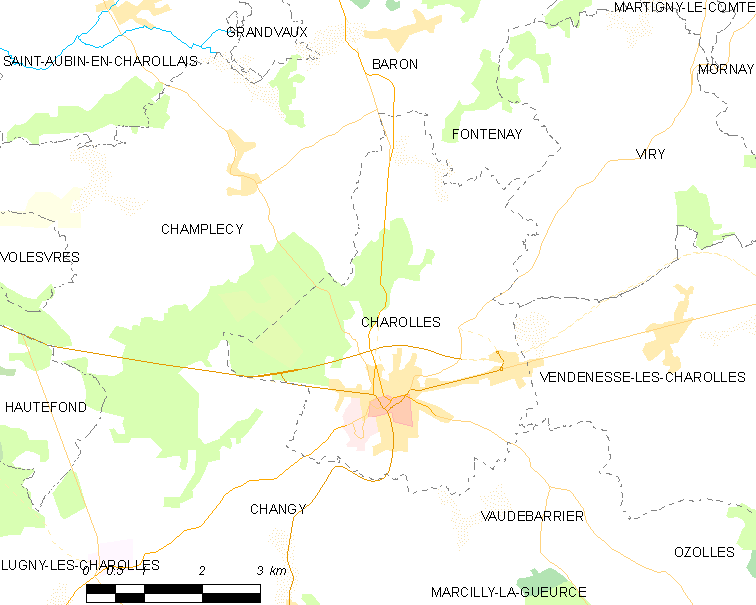 Map of French municipality